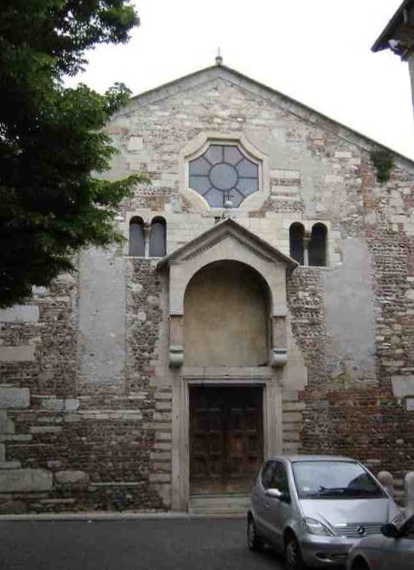 Church of St. Procolo, Verona. Facade